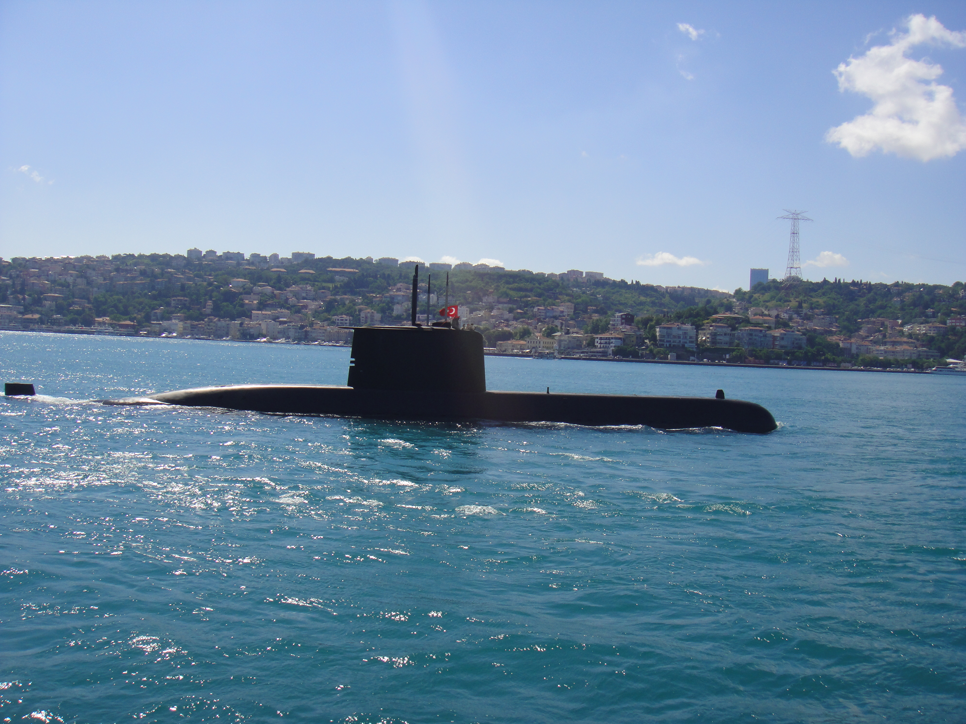 Submarine from Turkish Naval Force in Istanbul-Bosphorus Türkmençe: Türk Deniz Kuvvetleri'ne ait bir denizaltı İstanbul Boğazında seyir halinde.